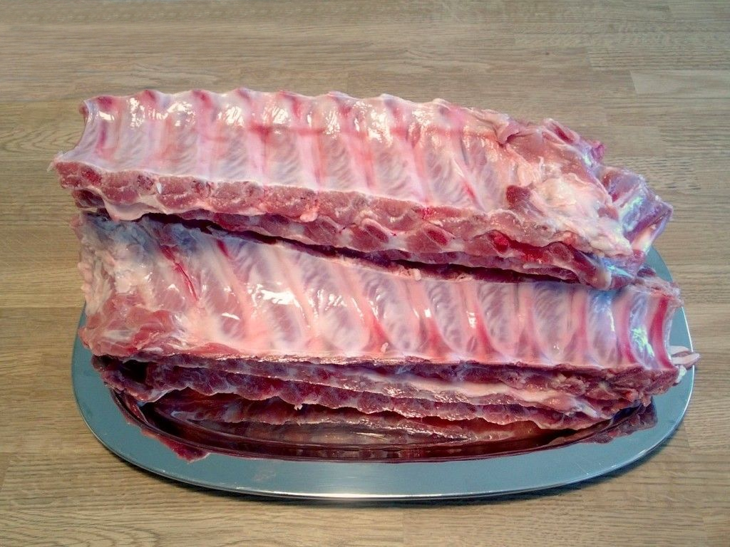 Babybackribs